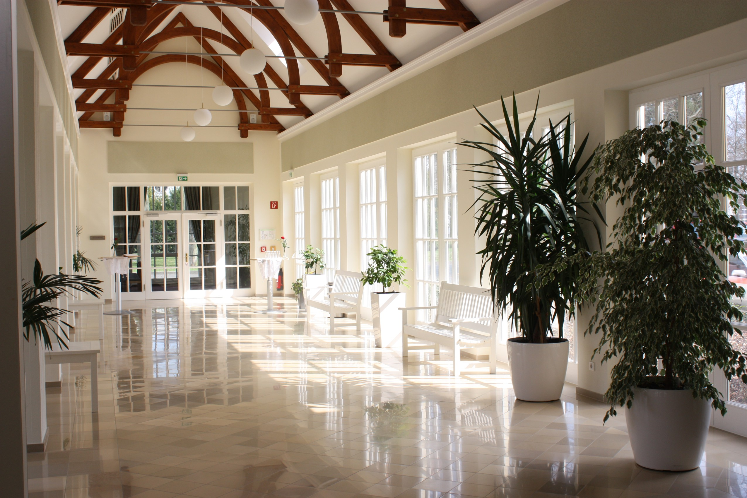 Bad Hersfeld, inner view of the Kurhaus